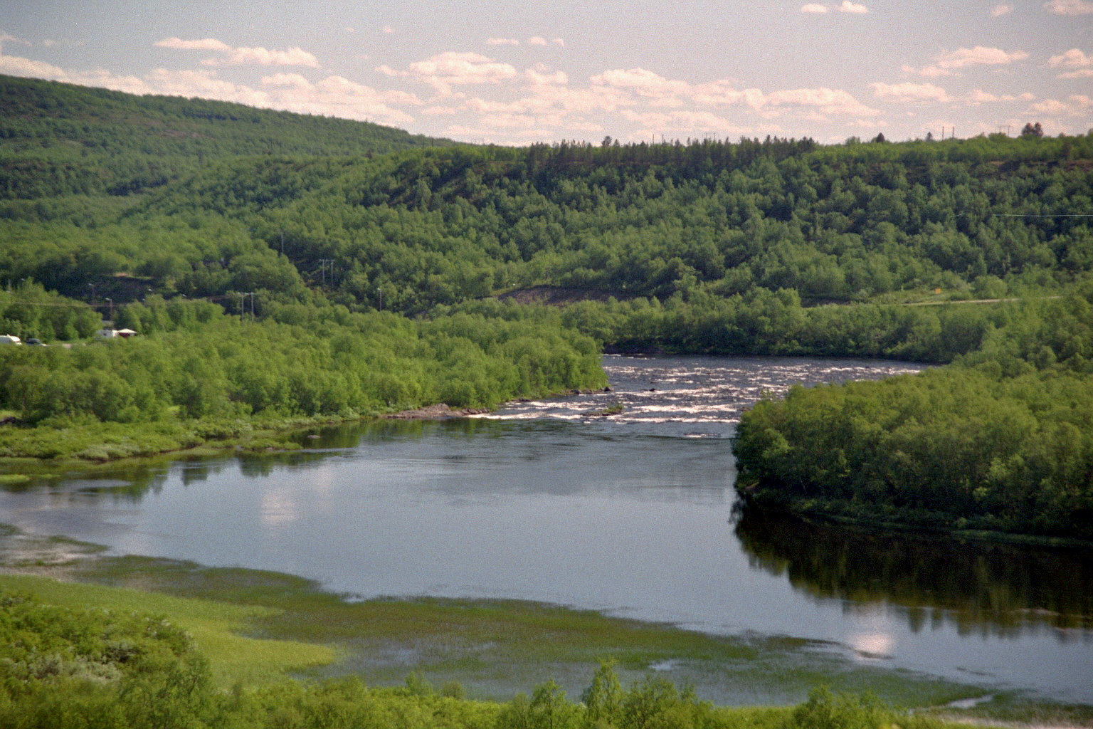 Neiden river in Neiden in Sør-Varanger in Finnmark in Norway